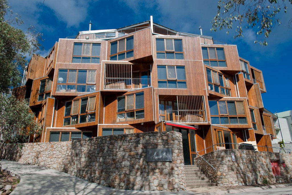 Huski Hotel, Falls Creek, Australia. Architect: Elenberg Fraser (2005).